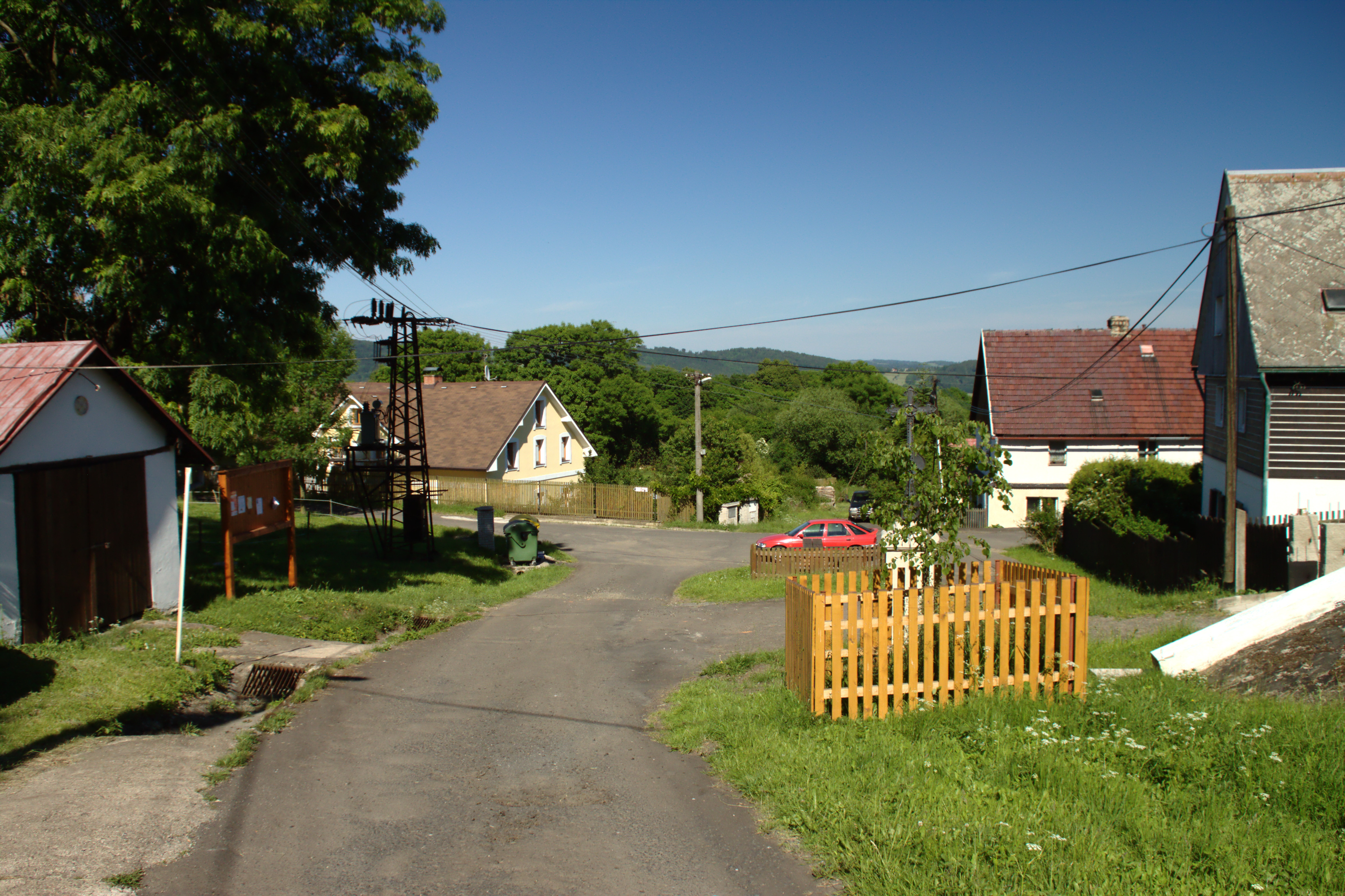 A road to the common in the village of Pohoří, Ústí Region, CZ